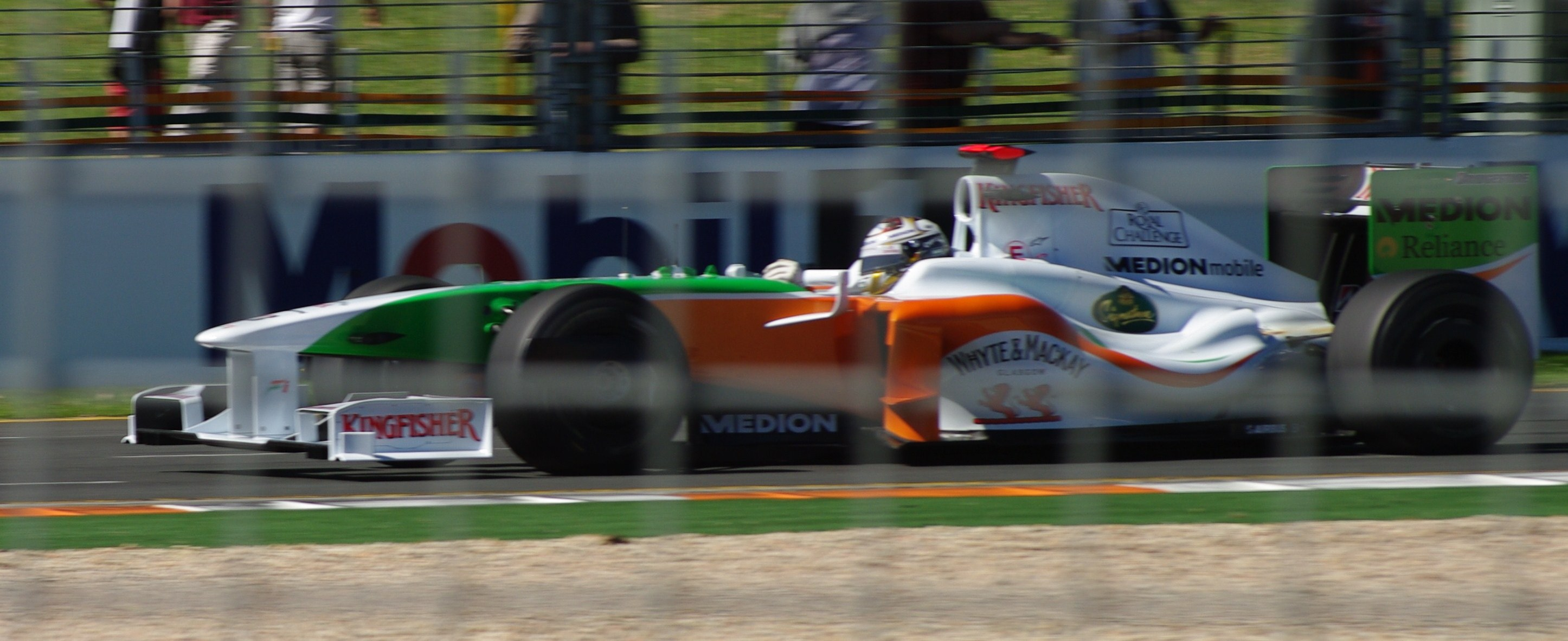 Adrian Sutil at 2009 Australian Grand Prix, Melbourne, Australia